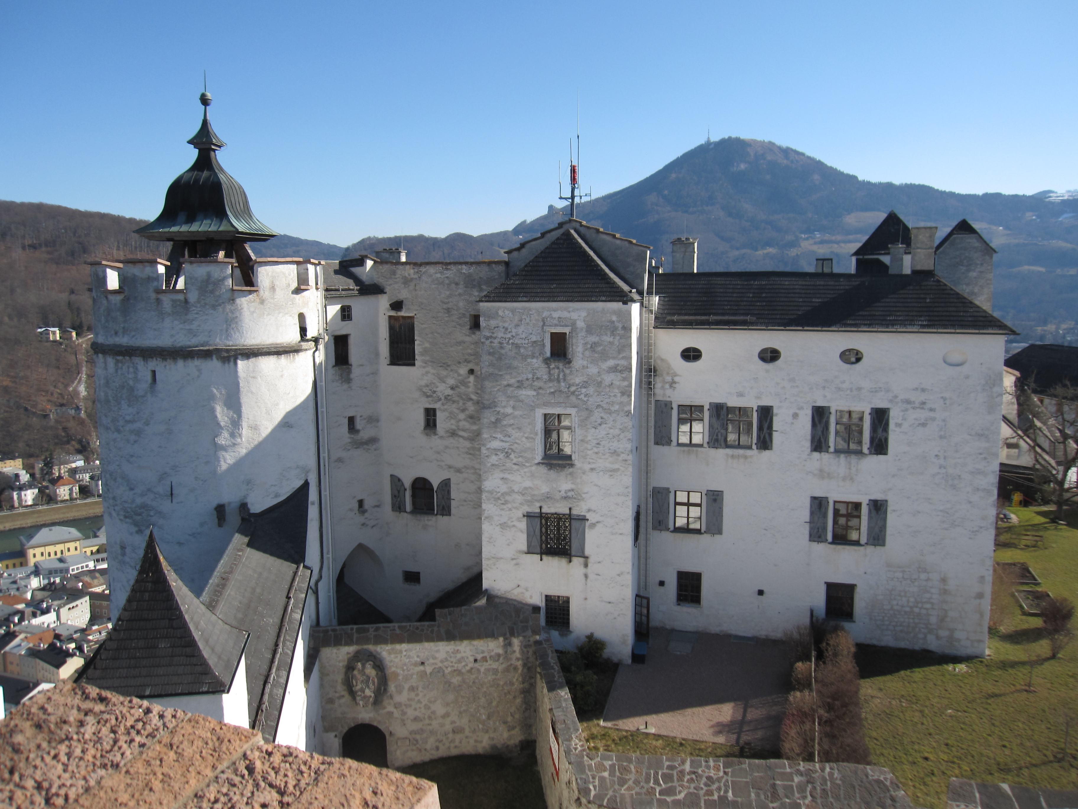 Hoher Stock of Hohensalzburg Castle.